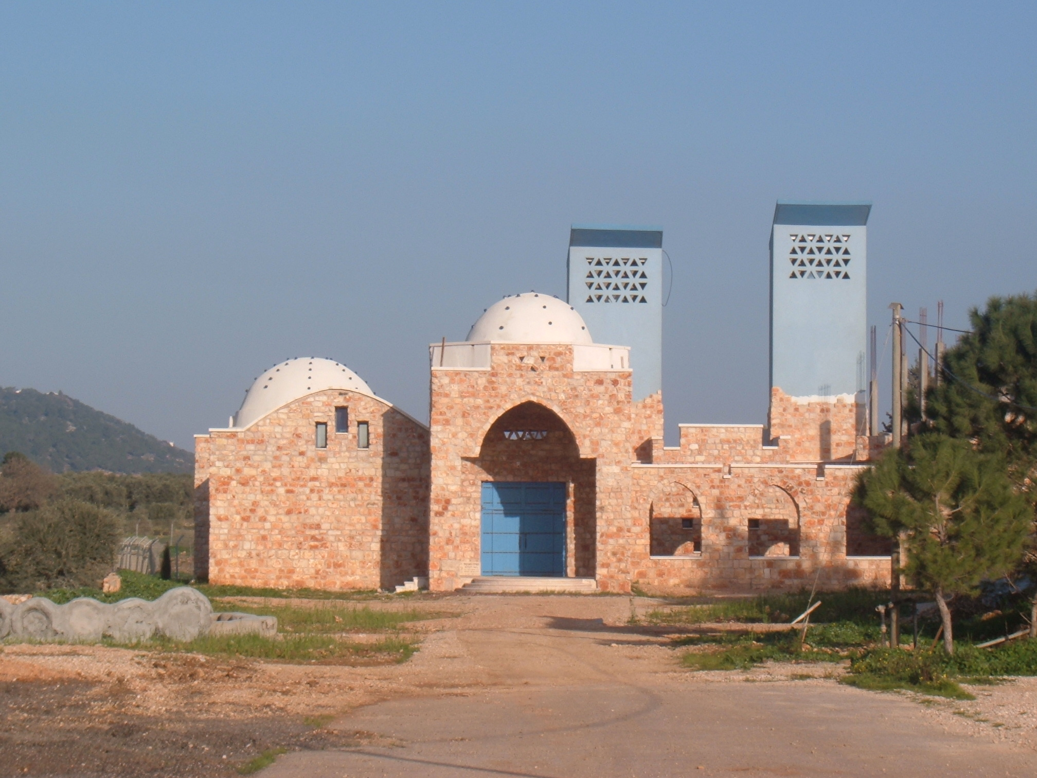 מרכז למחקר וחינוך סביבתי ליד סח'נין - Center for environment education and research near Sakhnin